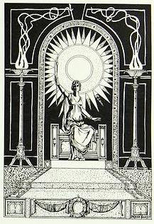 Used as a frontispiece for the yearbook section on Honor Societies, this image is iconic of student art for the period. From the Minnesota Gopher Yearbook, vol.35, 1922 edition, p.403